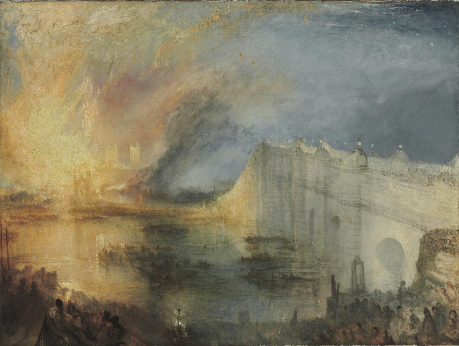 Turner witnessed the fire that burnt down most of the Palace of Westminster on 16 October 1834. He made a watercolour sketch at the time, which he then used as the basis of several larger paintings. As well as this one, he also painted a more distant view with the same title (now at the Cleveland Museum of Art) and The Burning of the Houses of Parliament (Tate Gallery).